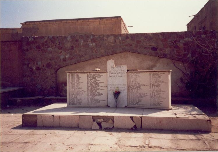 Image of the memorial tablet placed at the mass grave in Cairo for those who died on PIA Flight 705 - May 20 1965.the mass graveyard is located in old cairo city near of basateen police station Maaadi cairo.